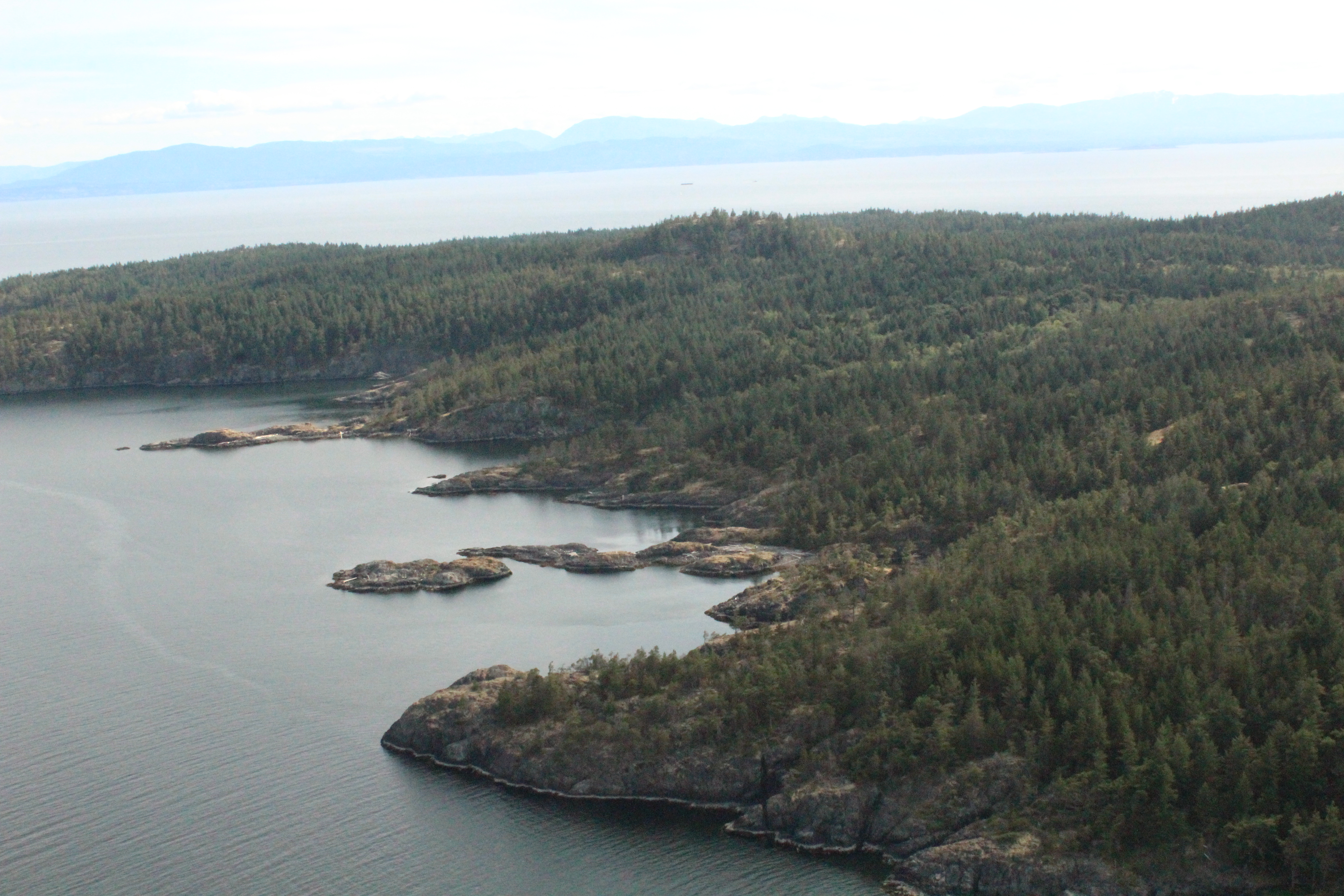 Simson Provincial Park from a floatplane